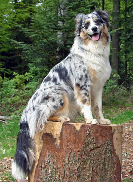 Aussie with tail